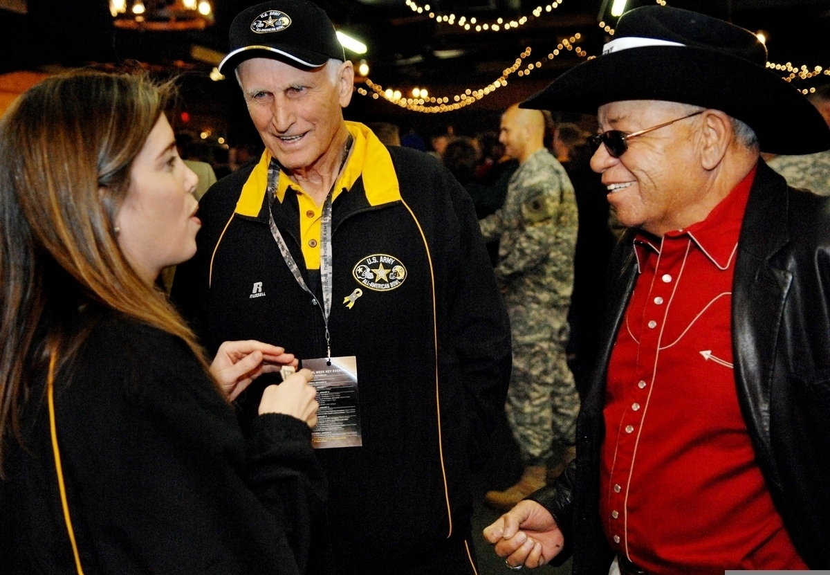 Coaches Bill Yoast (center) and Herman Boone (right) tell Karen McGuiness the history of their participation during a special barbecue designed to honor both Soldier-heroes and players. The two coaches were highlighted in the movie "Remember the Titans."